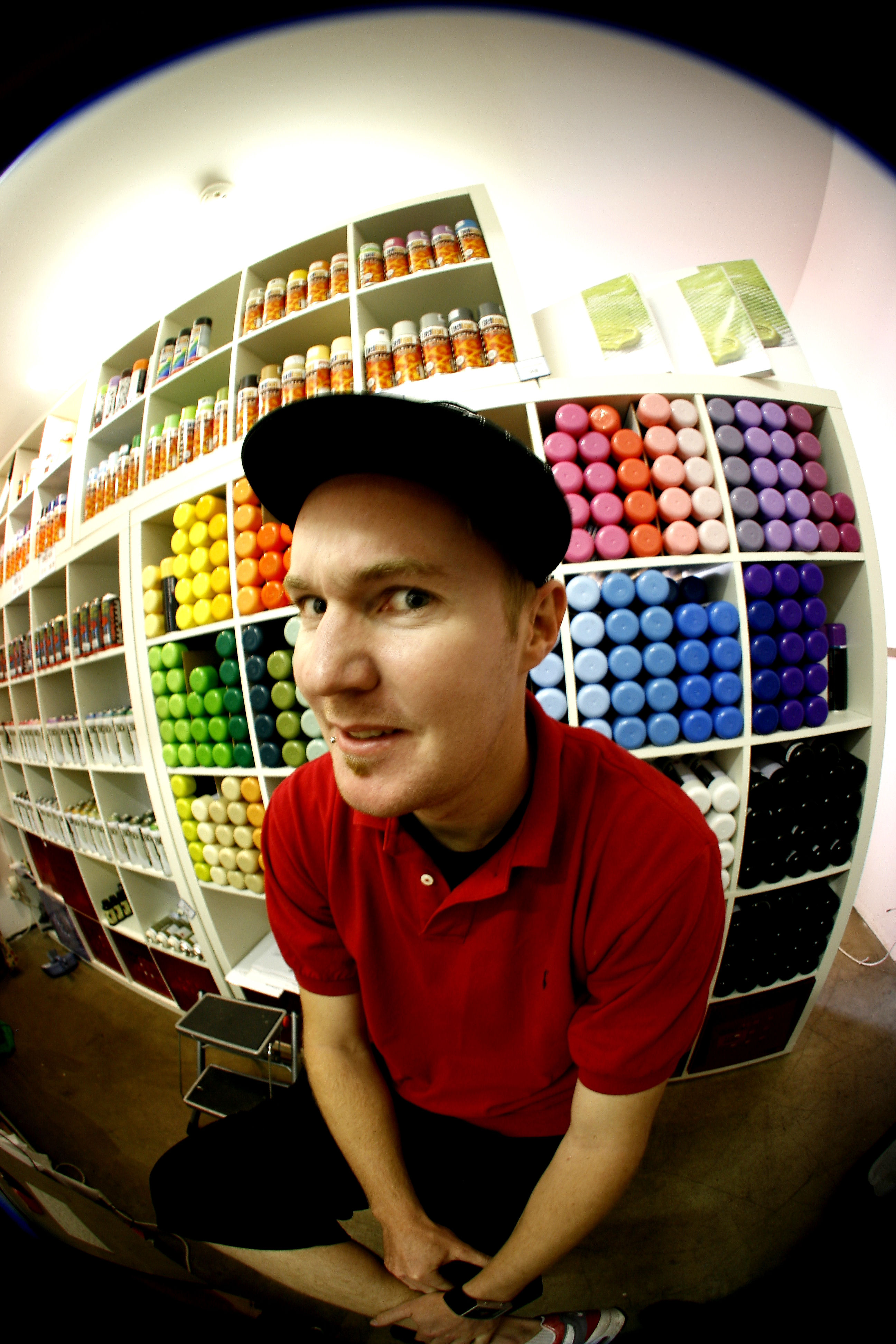 Drapht